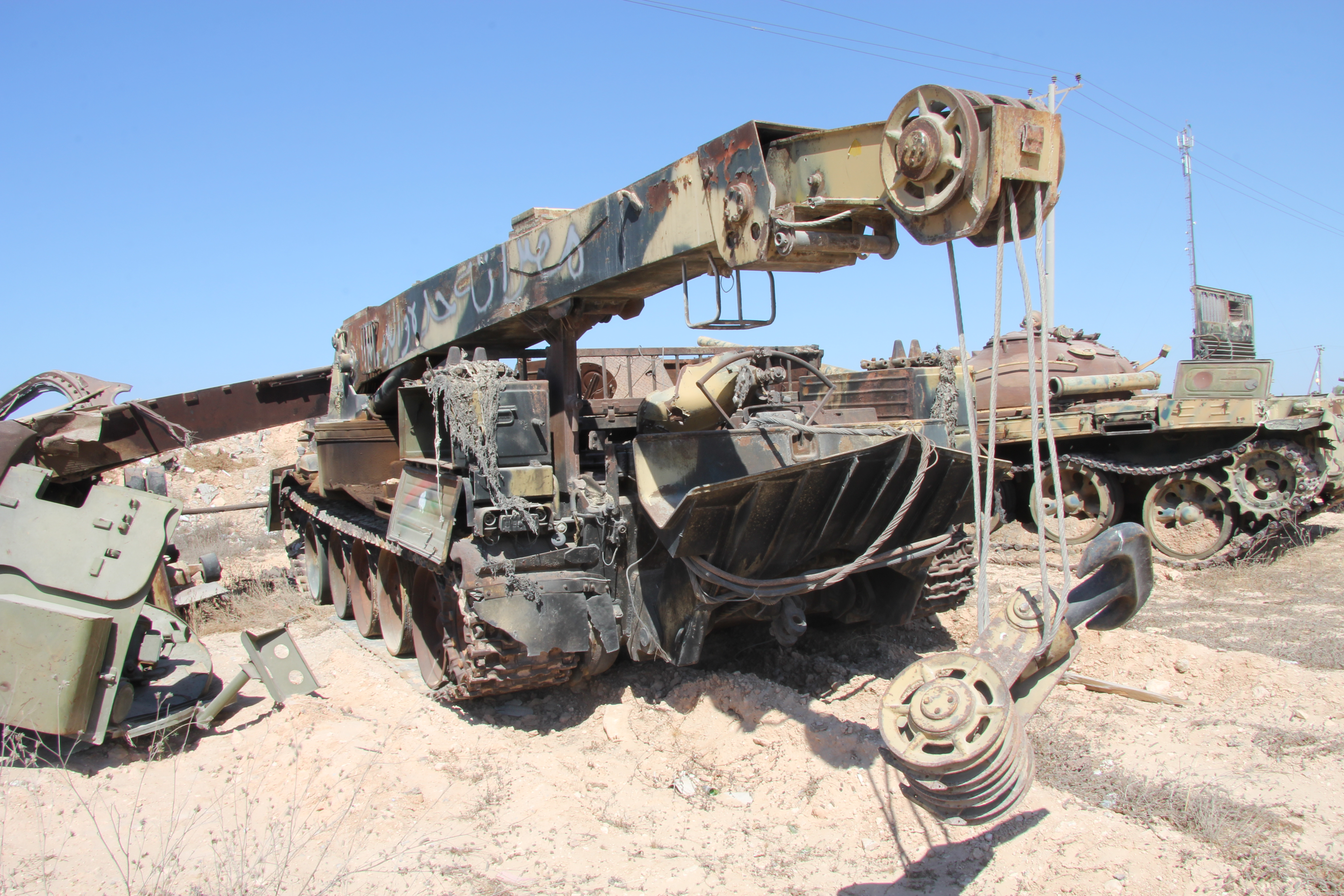 Tank JVBT-55A outside of Misrata (11)